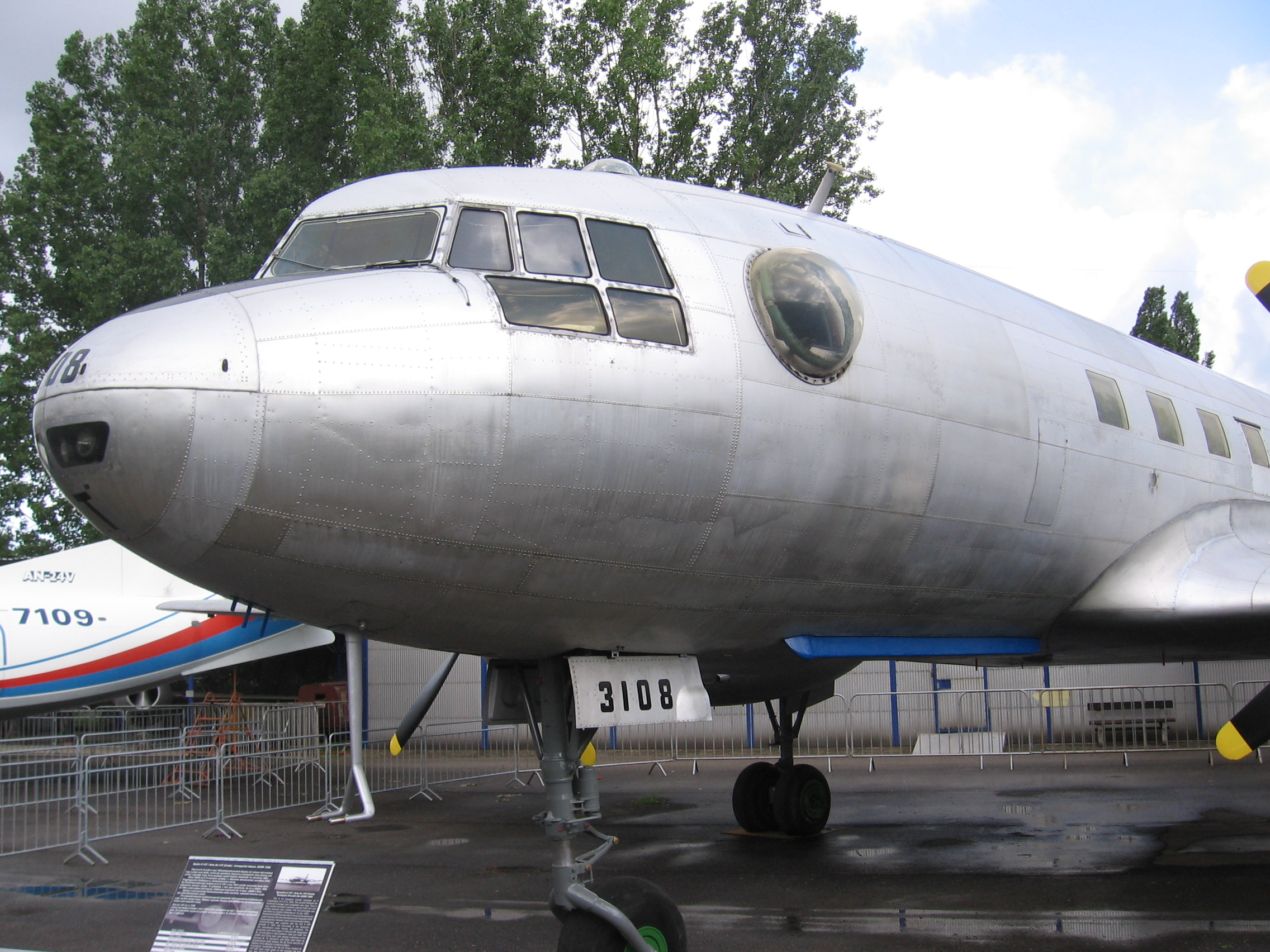 Avia Av 14-32 A, Kbely museum, Prague, Czech Republic